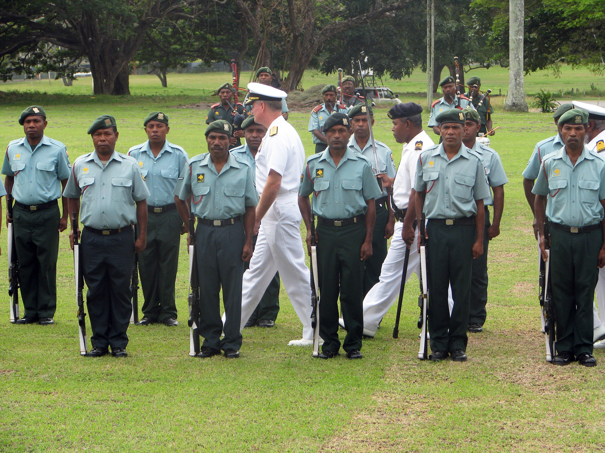 PORT MORESBY, Papua New Guinea (June 30, 2011) Adm. Patrick Walsh, commander of U.S. Pacific Fleet, center, reviews the Papua New Guinea Defence Force (PNGDF) Honor Guard upon his arrival at Murray Barracks for discussions with PNGDF leadership. Walsh is part of a U.S. delegation led by Assistant Secretary for East Asian and Pacific Affairs Kurt Campbell, currently visiting nations throughout the South Pacific to engage in discussions to enhance bilateral political, economic and security relations in the region. The delegation also includes U.S. Agency for International Development (USAID) Assistant Administrator Nisha Biswal, and Office of the Secretary of Defense South/Southeast Asia Principal Director, Marine Corps Brig. Gen. Richard Simcock. [U.S. Navy photo by Lt. Cmdr. Thomas Weiler/U.S. Government Work License/Public Domain]